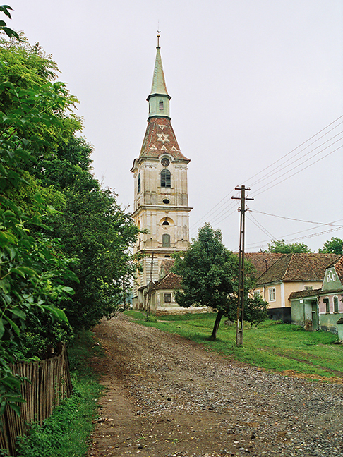 Daia (Sighişoara) church, Romania